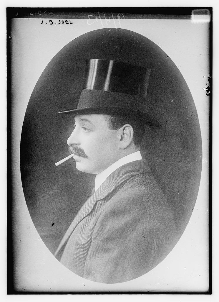 J.B. Joel (LOC) Bain News Service,, publisher. J. B. Joel 1913 September 14 (date created or published later by Bain) 1 negative : glass ; 5 x 7 in. or smaller. Notes: Title and date from data provided by the Bain News Service on the negative. Photo shows Jack Barnato Joel (1862-1940), formerly Isaac Joel, a South African mining magnate and racehorse owner and breeder. (Source: Flickr Commons Project, 2010) Forms part of: George Grantham Bain Collection (Library of Congress). Format: Glass negatives. Repository: Library of Congress, Prints and Photographs Division, Washington, D.C. 20540 USA, General information about the Bain Collection is available at Persistent URL: Call Number: LC-B2- 2825-6